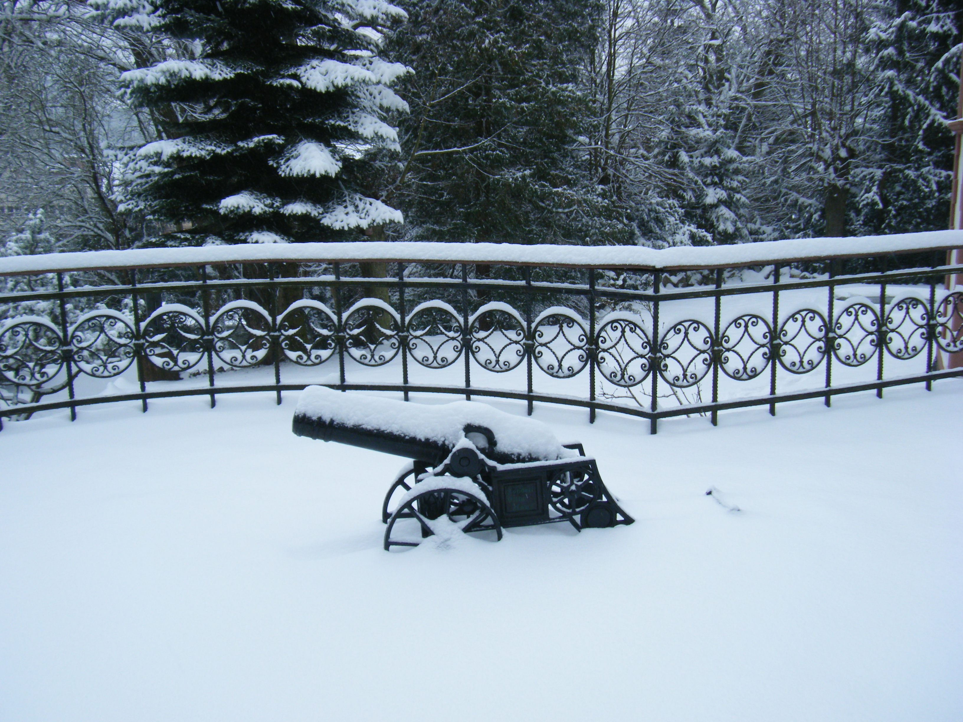 Interplay of art castings and ironwork starting 19th century.